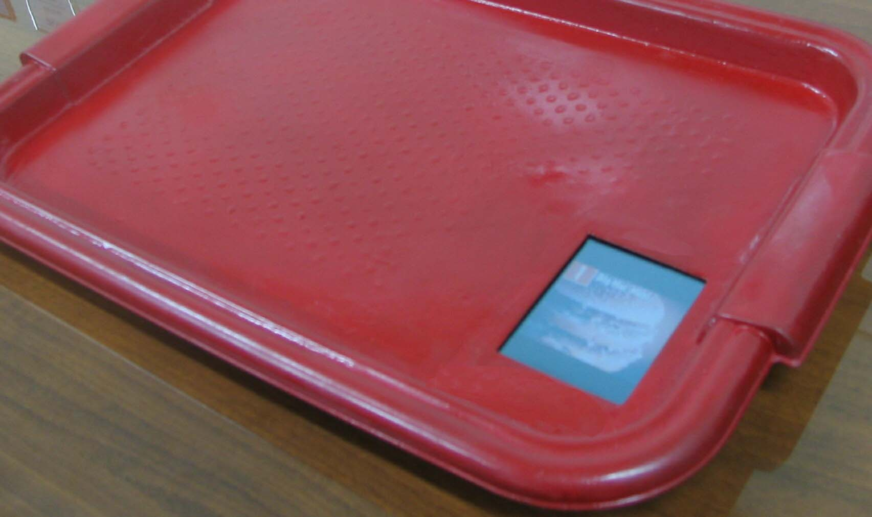 Multimedia tray in a fast food restaurant. Picture taken 08.11.06.